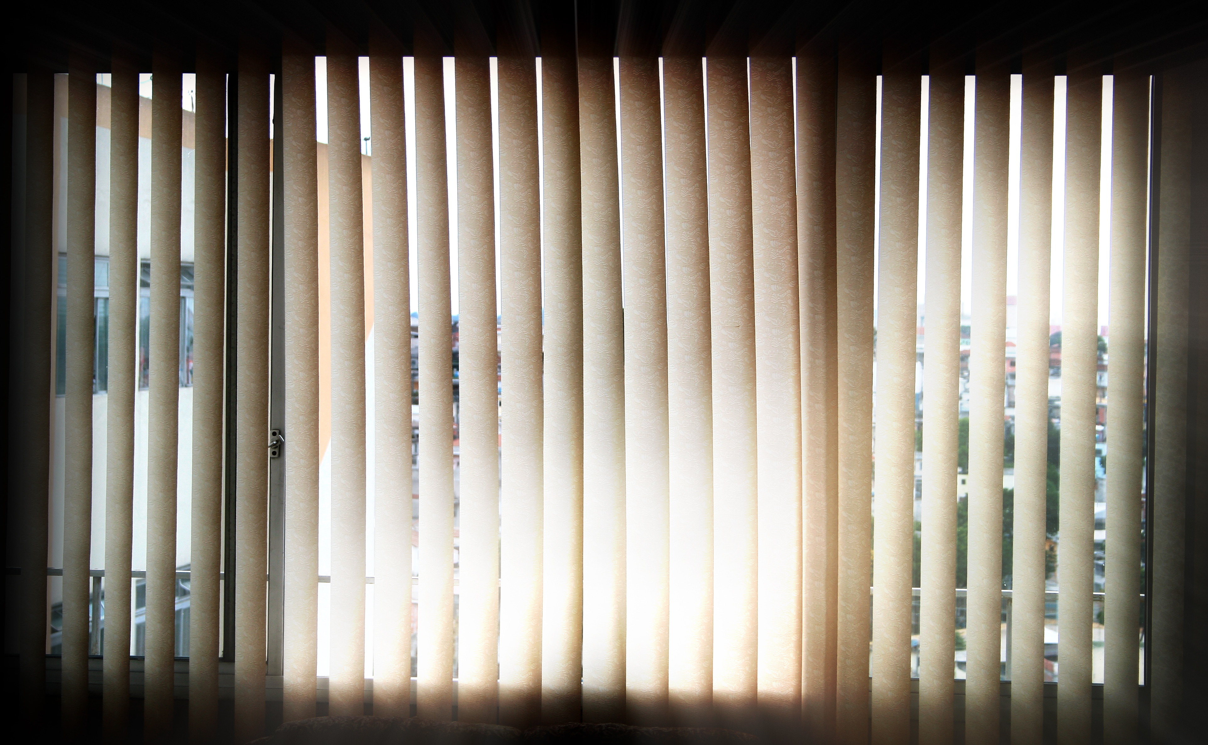 Photographer's caption: A generic curtain with 12 o'clock sun shining through it, just to capture the light. I've used photoshop to adjust the colors and to increase the sun shine. São Paulo - SP